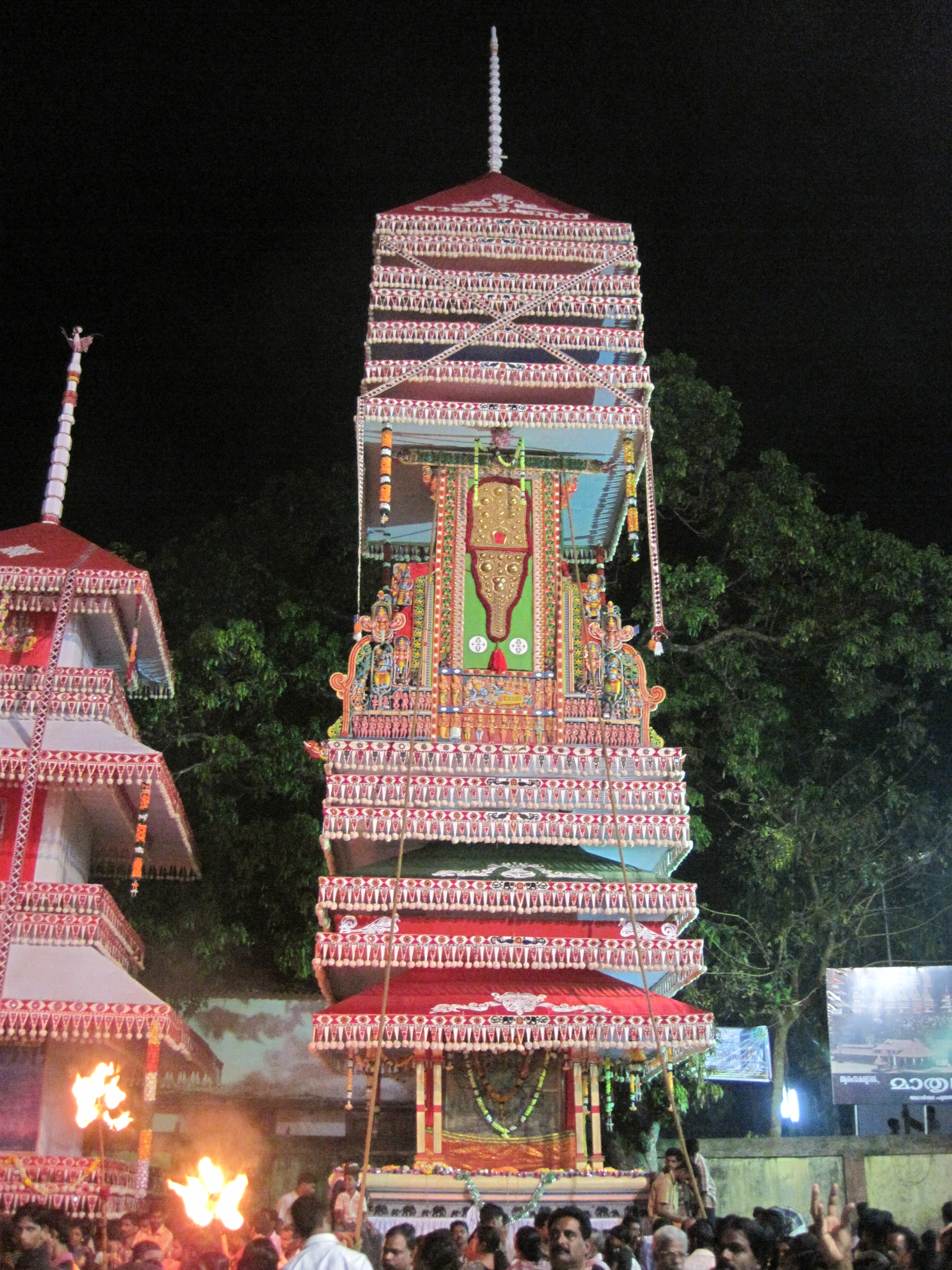 Kuthira Offered at Chettikulangara Temple